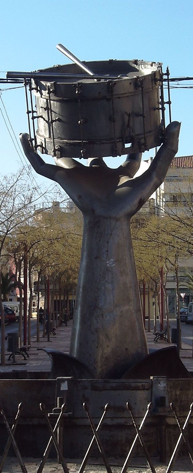 Tobarra, Albacete, España, monumento al Tambor. Diciembre de 2005. -- Tobarra, Albacete, Spain, monument to the drum. December 2005. -- Own picture, given to PD.